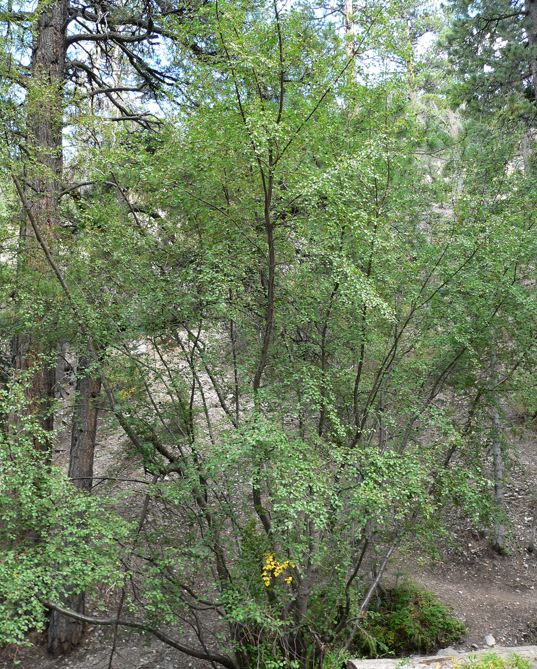 Betula occidentalis — Water birch. Alongside Deer Creek in the picnic area, Spring Mountains, southern Nevada (elev. about 2500 m).